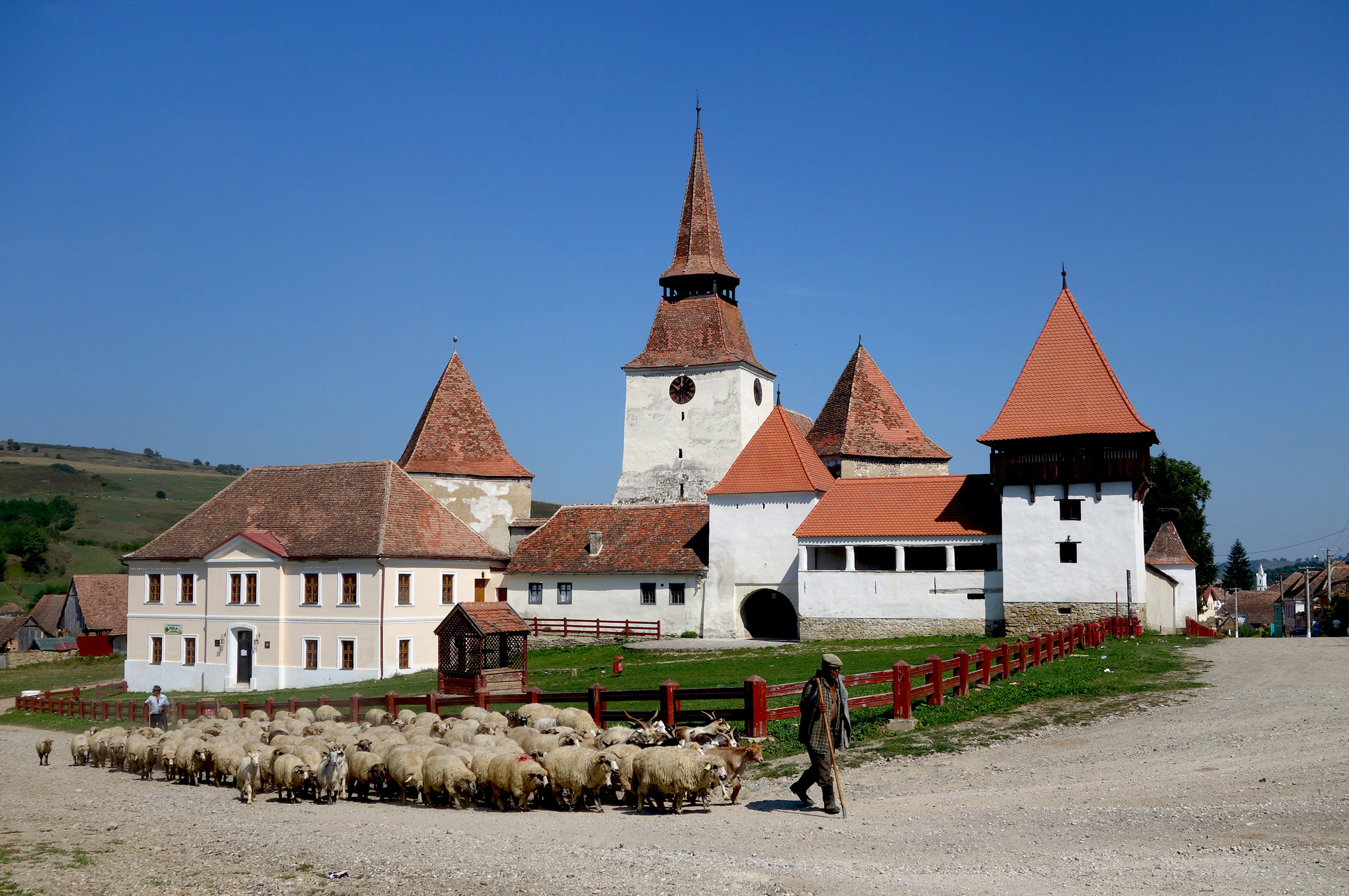 The fortified church of Archita, Mureș County, Romania. According to the uploader, the pic was shot on September 1, 2015.